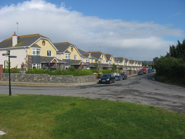 Western suburbs of Duleek New housing estate called 'The Steeples'.